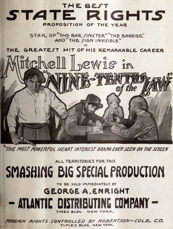 Advertisement for the American drama film Nine-Tenths of the Law (1918) with Mitchell Lewis, on page 3 of the May 4, 1918 Exhibitors Herald.